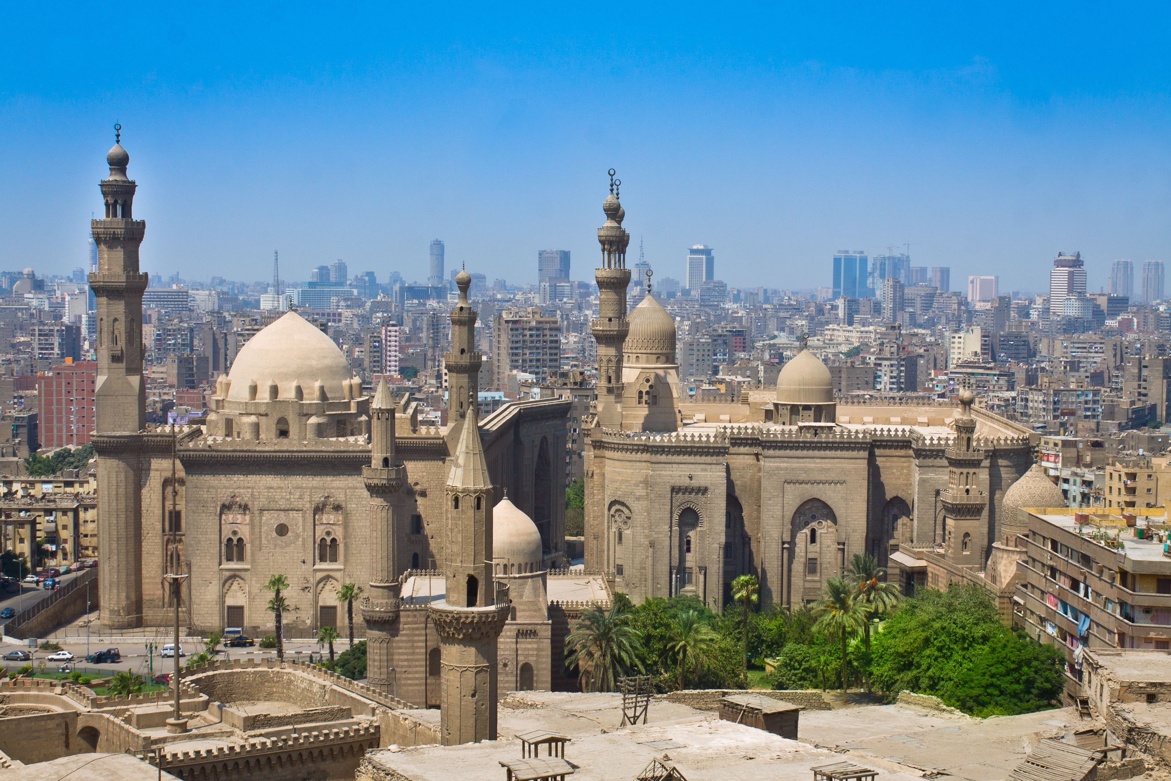 The Mosque-Madrassa of Sultan Hassan is a massive Mamluk era mosque and madrassa located near the Citadel in Cairo. Its construction began 757 AH/1356 CE with work ending three years later "without even a single day of idleness".[1] At the time of construction the mosque was considered remarkable for its fantastic size and innovative architectural components. Commissioned by a sultan of a short and relatively unimpressive profile, al-Maqrizi noted that within the mosque were several "wonders of construction".[1] The mosque was, for example, designed to include schools for all four of the Sunni schools of thought: Shafi'i, Maliki, Hanafi and Hanbali.